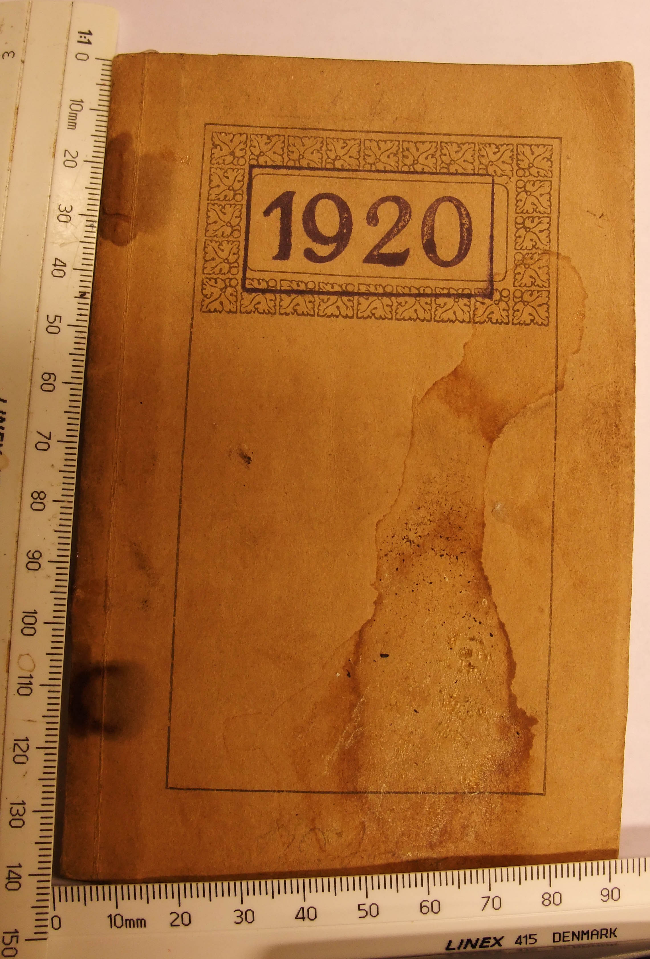 "Motbok", Systembolaget i Åmål, Sweden, 1920. Front page.